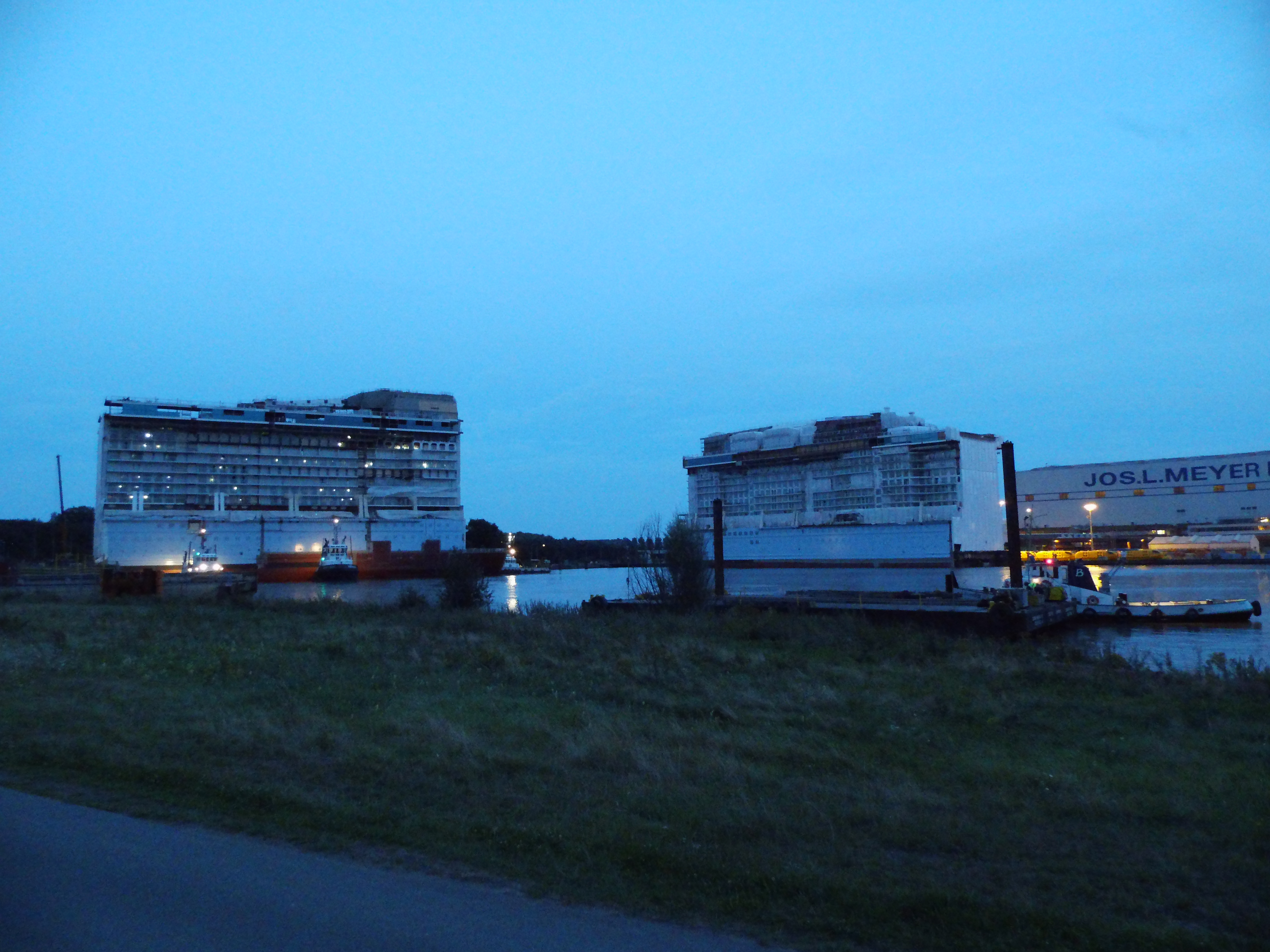 Both "Anthem of the Seas"-Sections floated out at shipyard Meyer Werft, Papenburg, Germany